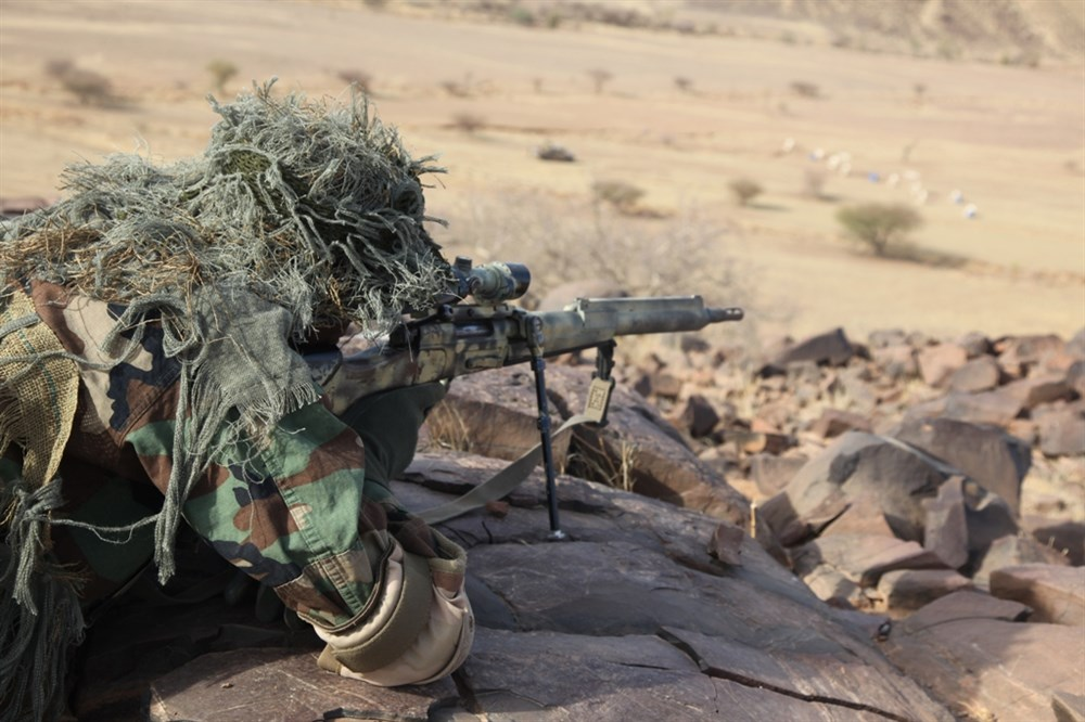 Senegalese soldiers pull security during a live fire training event during exercise during Flintlock 2013, Nema, Mauritania, March 08, 2013. Flintlock has been an annual initiative since 2005 across the Sahel in conjunction with international partners to improve their capacity and capability to protect civilians. (U.S. Army photo by Specialist Justin De Hoyos)